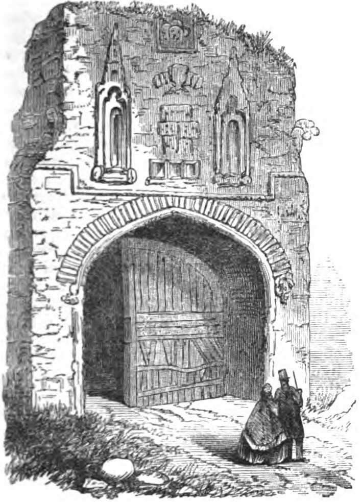 Gateway of Walsingham Priory (Robert Chambers, p.177, 1832)